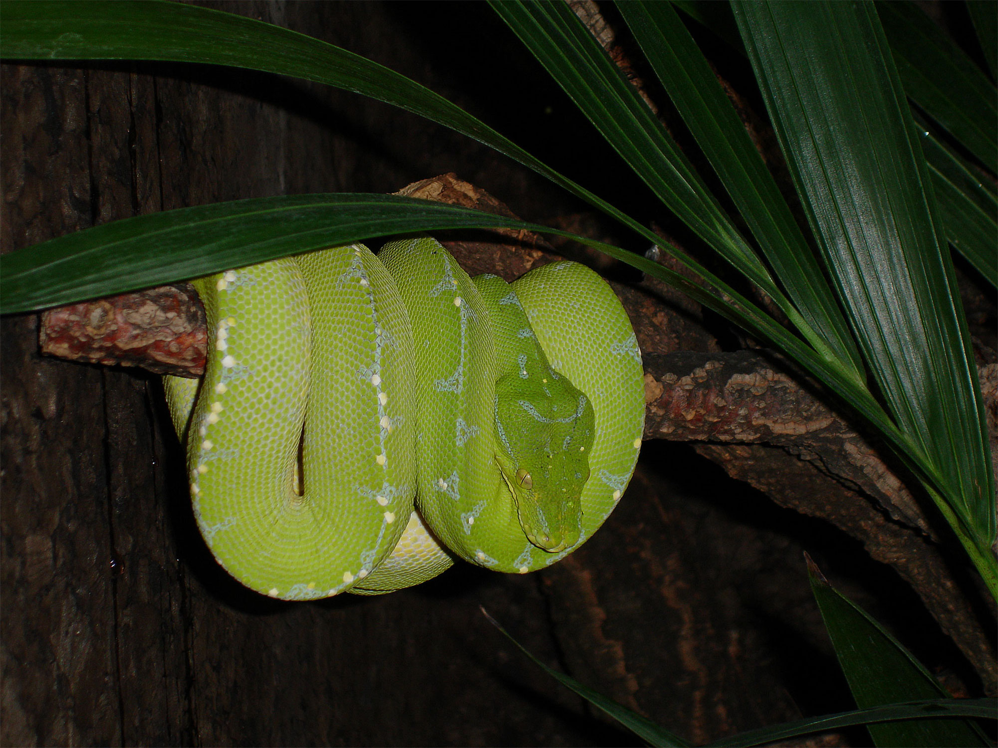 Morelia viridis Sorong-Form Grüner Baumpython